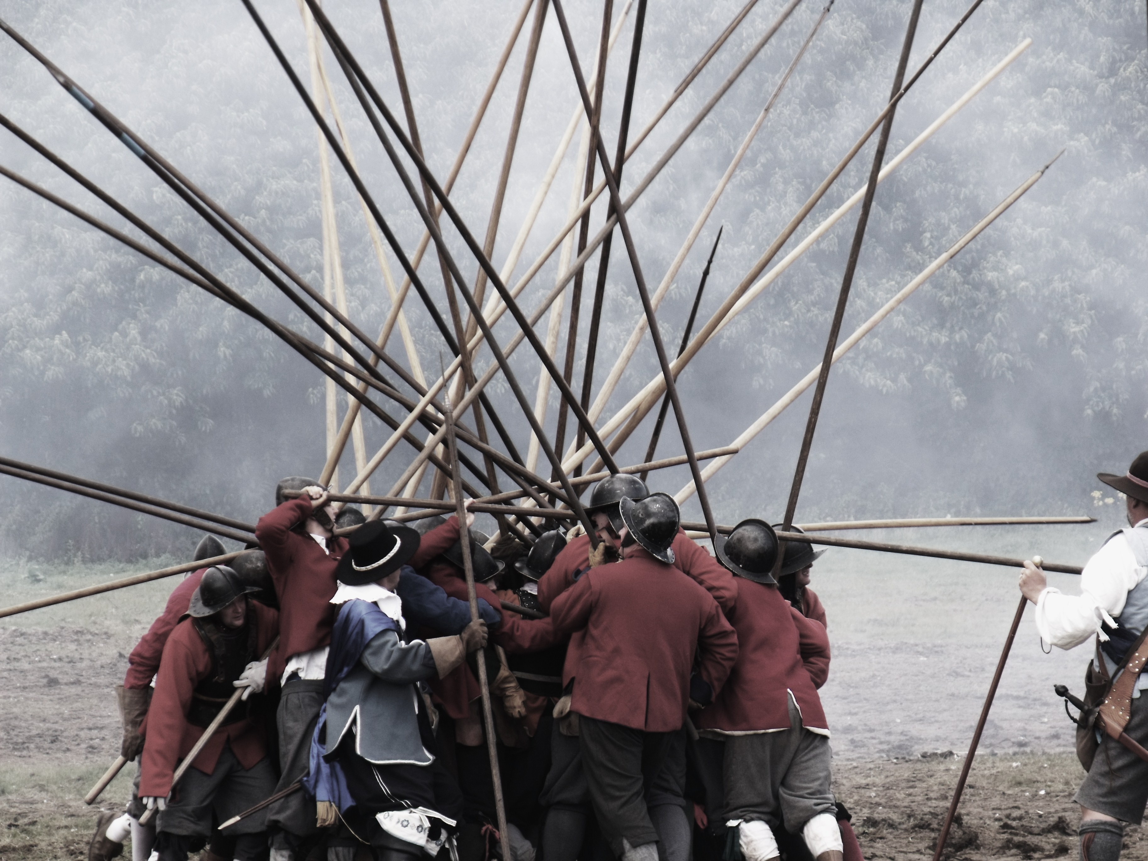 A pike charge during a re-enactment of the Battle of Maidstone at 'Military Odyssey' in Kent in 2011.